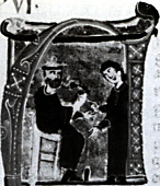 The Monge de Montaudon receiving a sparrow hawk from BNF 854, folio 135r.